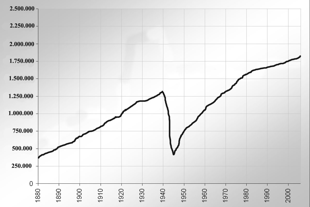 Warsaw's population (1880-2005).